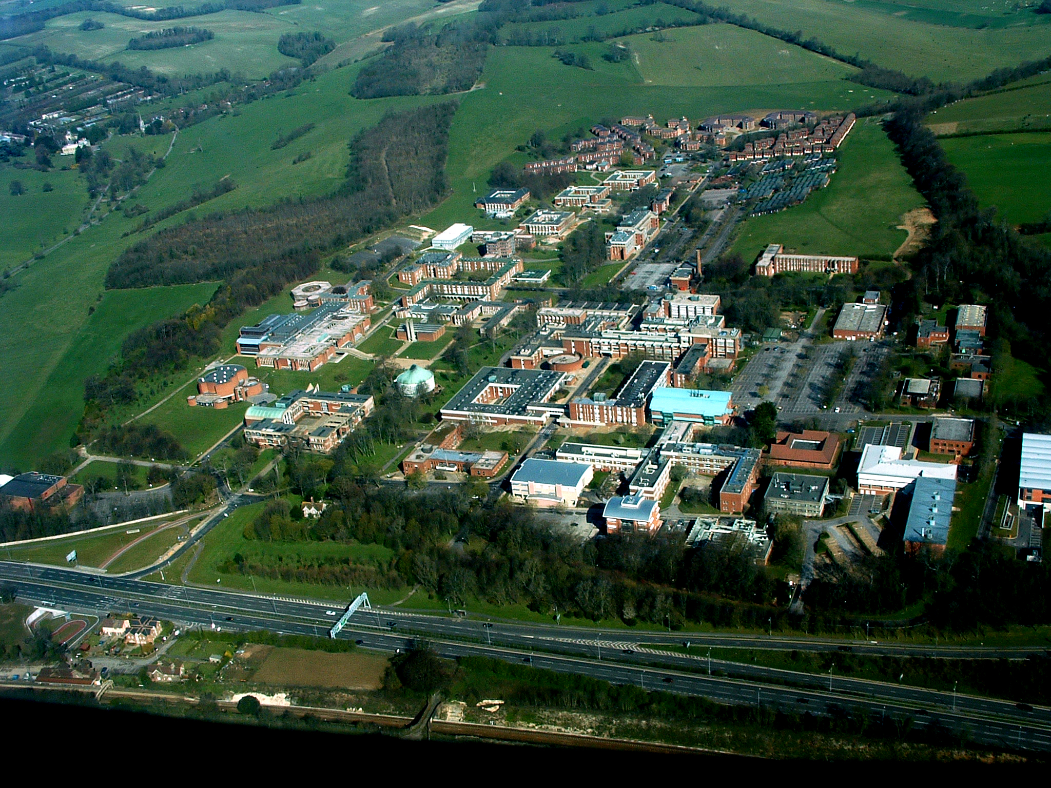 Airborne imagery University Of Sussex Campus